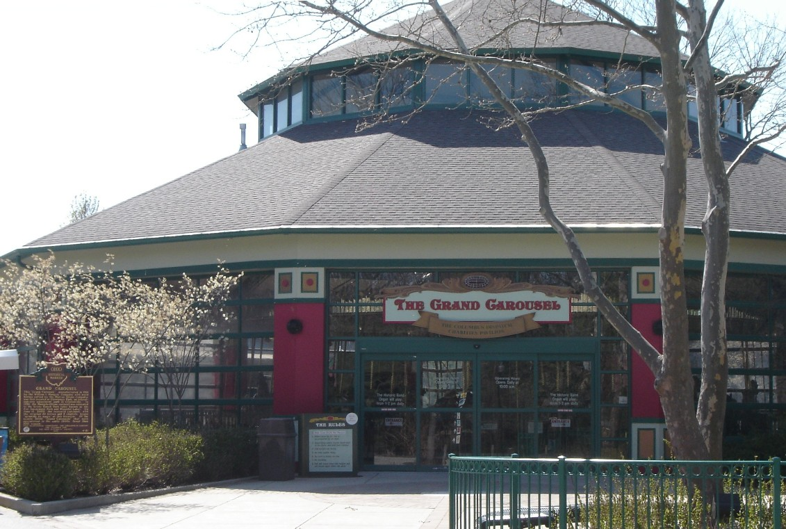 Mangel Illions Carousel built in 1914 and refurbished in 2000, at the Columbus Zoo and Aquarium.